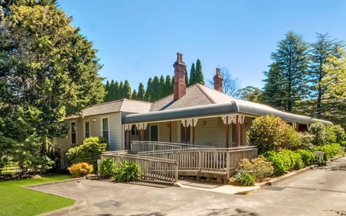 Mondeval, Leura, New South Wales